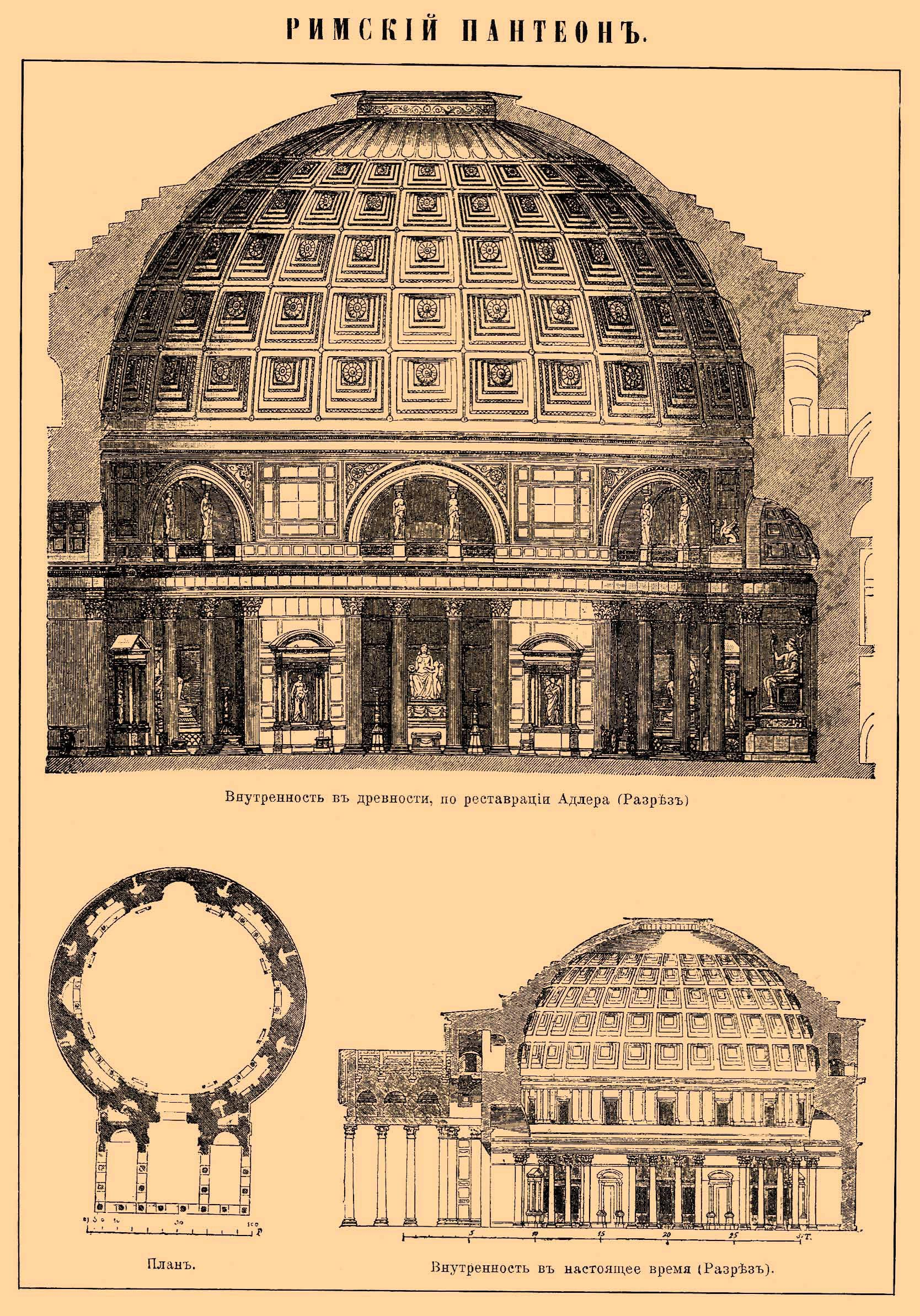 Illustration from Brockhaus and Efron Encyclopedic Dictionary (1890—1907)